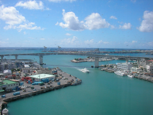 Tomari port / 泊港, Location: Tomari (Okinawa)